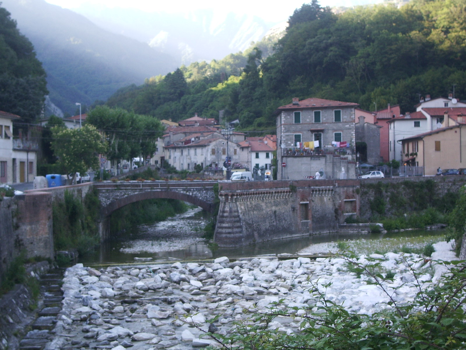 The place in Seravezza where the versilia river is formed by the union of Serra and vezza rivers